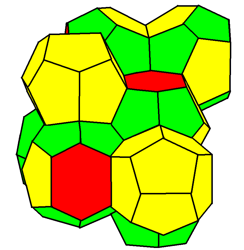 Honeycomb image traced and recolored from B&W diagram at [1]